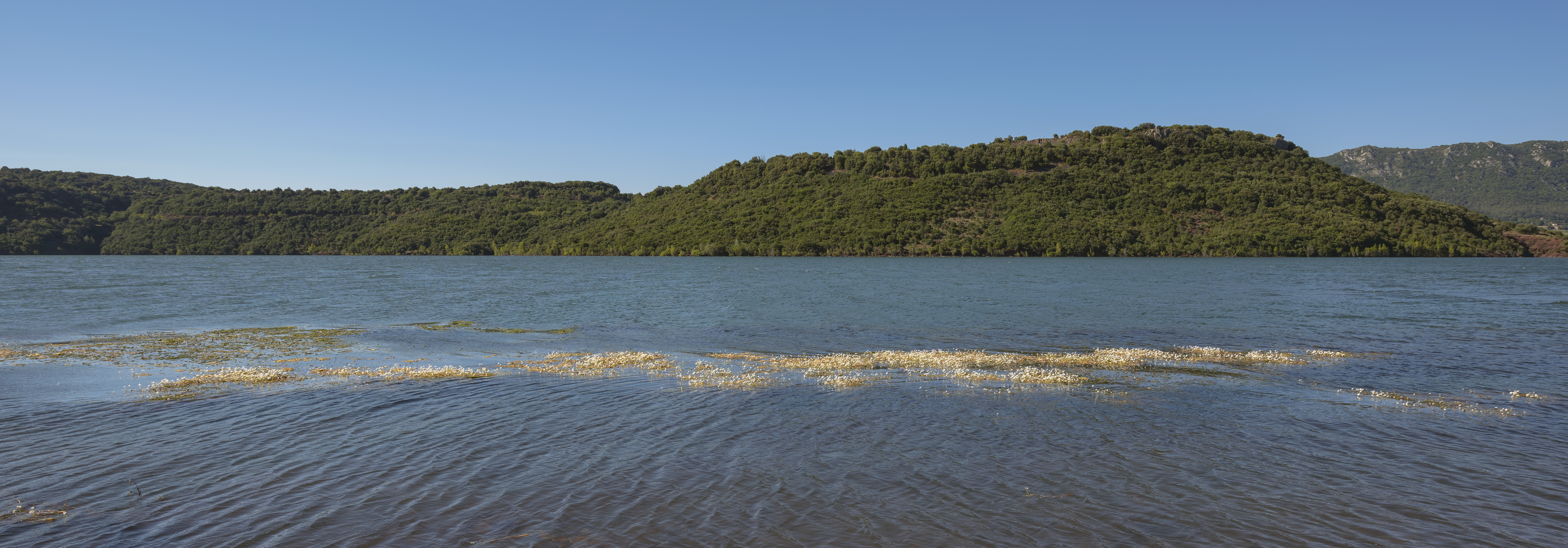 Lagarosiphon major flowers on Salagou Lake in the commune of Clermont-l'Hérault, Hérault, France